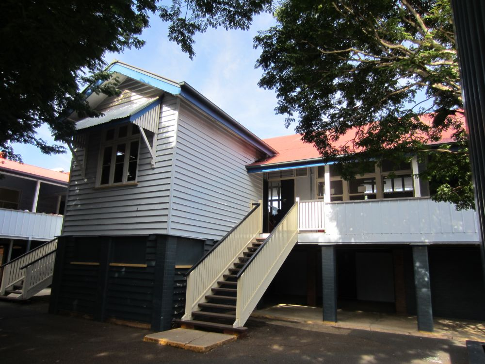 Virginia State School - Block B, W teachers room, from NE (2015)